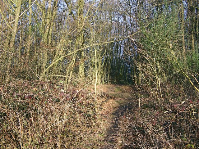 Great Chattenden Wood Footpath leading northwards into the wood from bridleway.